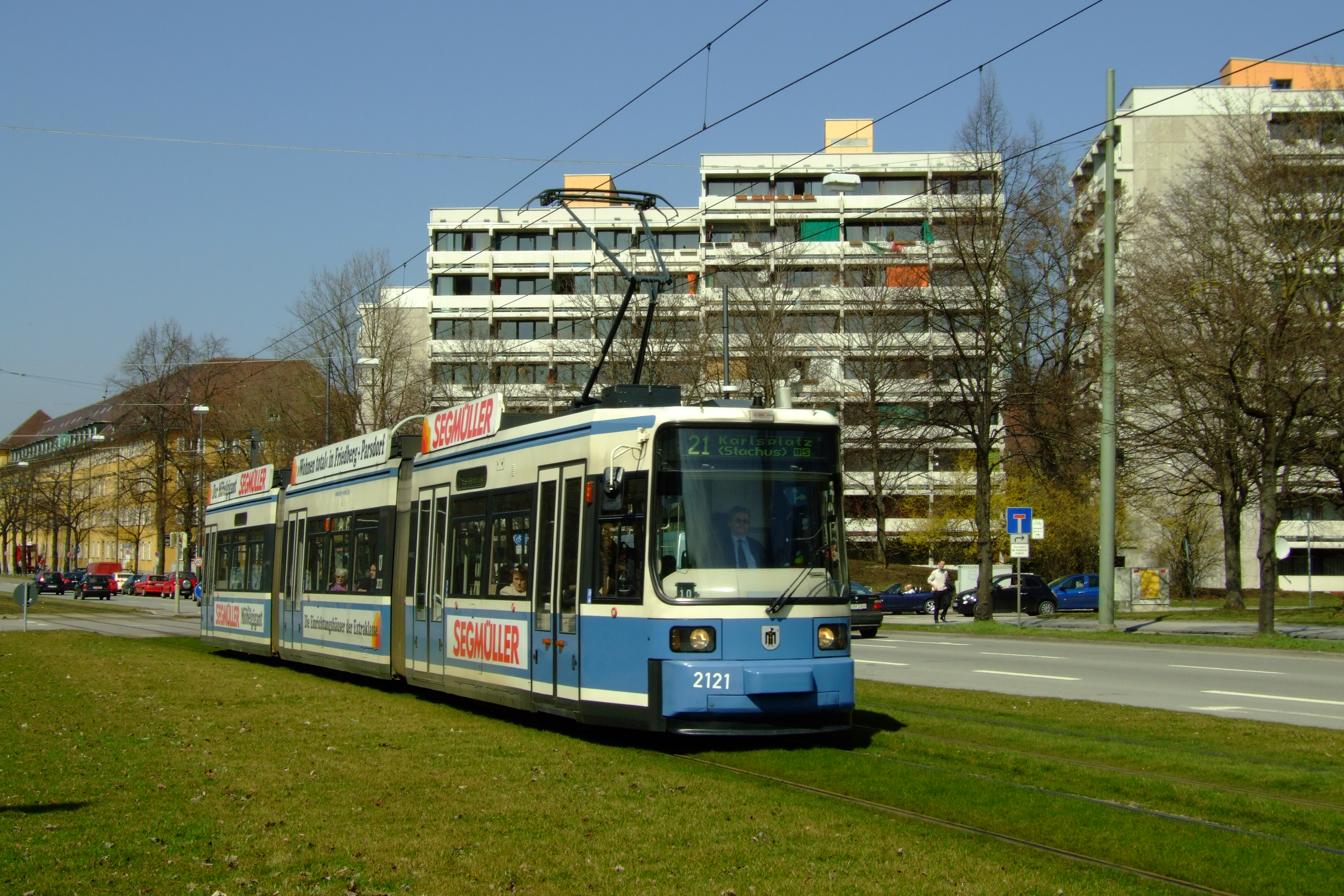 The tram 2121 (type R2.2) leaves the station Borstei